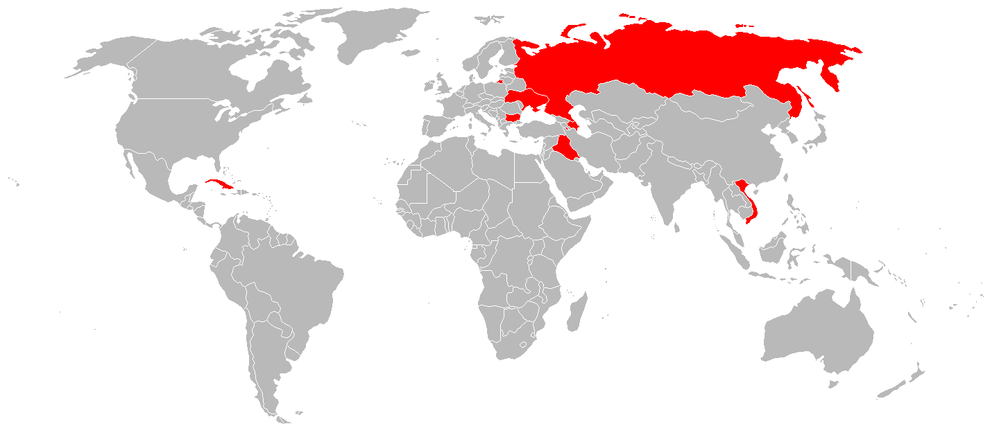 Description World map of operators of the Sonya class minesweeper Date4 February 2012SourceOwn work, derivative of image:BlankMap-World.png.AuthorVuhoangsonhnPermission (Reusing this file) All rights released